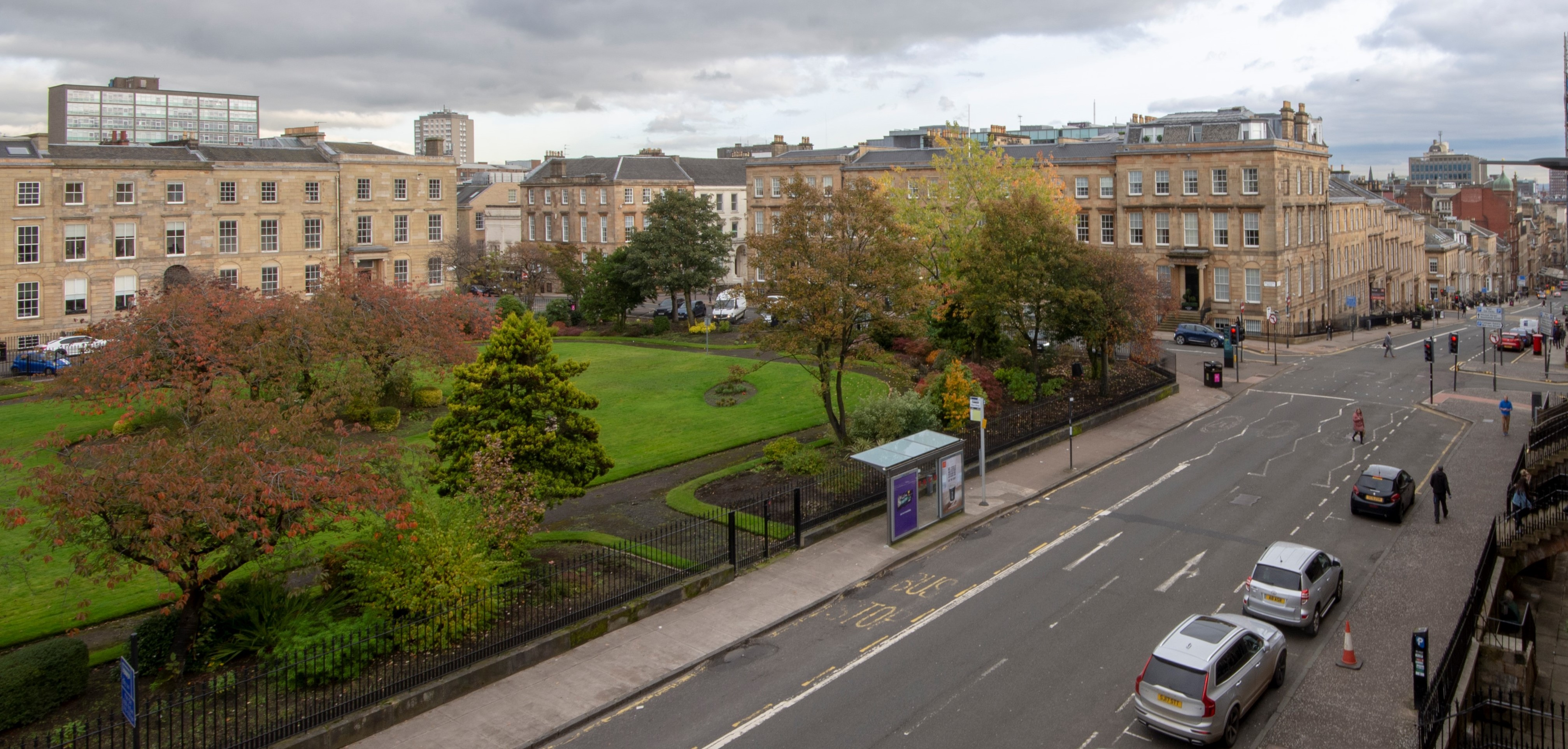 Blythswood Square, Glasgow at the junction with West George Street.